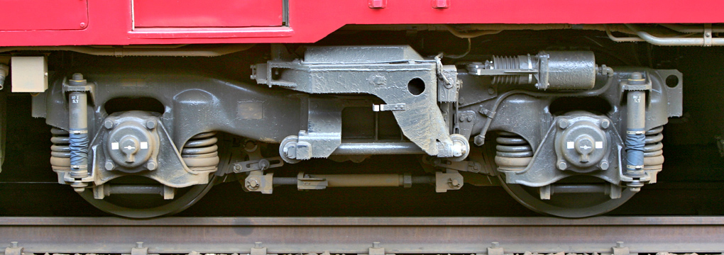 Type DT32E Bogie truck of JR West's JNR 485 series EMU.